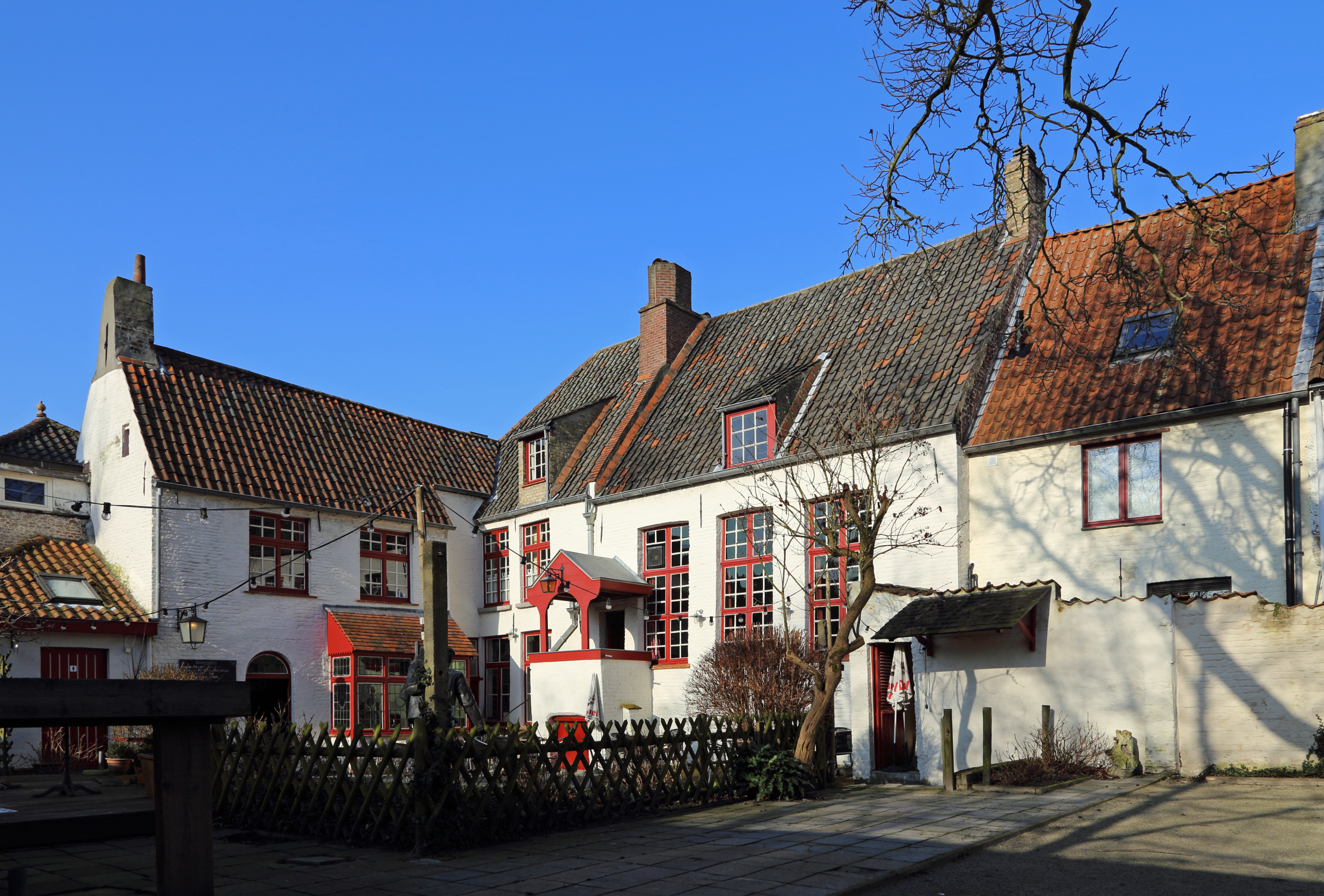 Bruges (Belgium): café Vlissinghe